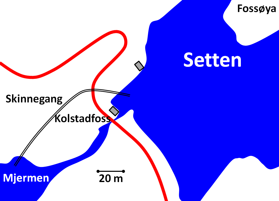 Map over Kolstadfoss (waterfall) old timberpass (water transport)